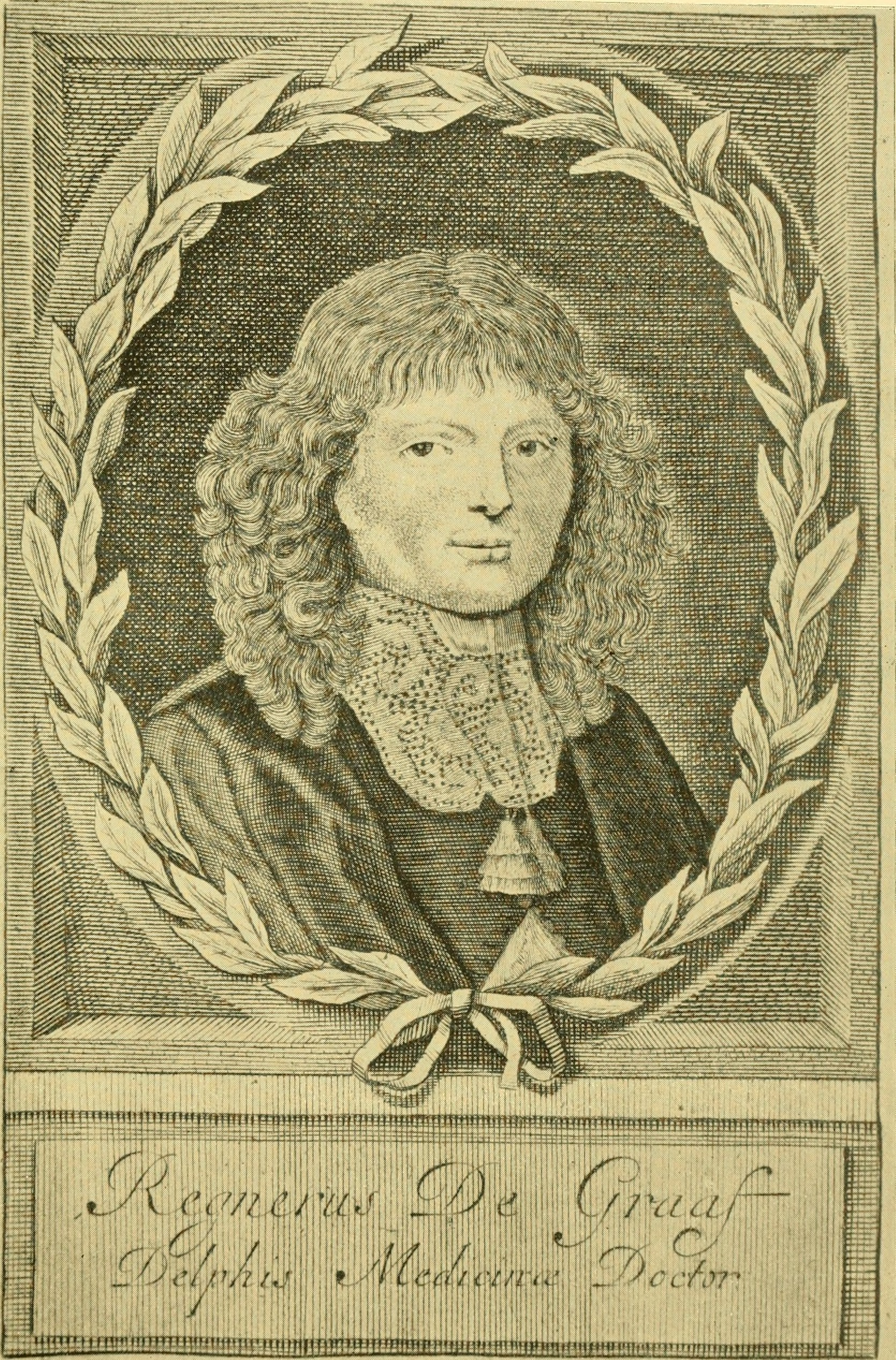 Title: Antony van Leeuwenhoek and his "Little animals"; being some account of the father of protozoology and bacteriology and his multifarious discoveries in these disciplines; Year: 1932 (1930s) Authors: Dobell, Clifford, 1886-1949; Leeuwenhoek, Antoni van, 1632-1723 Subjects: Leeuwenhoek, Antoni van, 1632-1723; Protozoa; Bacteria; Bacteriology; Microbiology; Science Publisher: New York, Harcourt, Brace and company Text Appearing Before Image: PLATE IX Text Appearing After Image: RP]INIER DE GRAAP (1641-1673) From the unsigned engraving prefixed to his posthumous Opera Omnia. facing p. 40